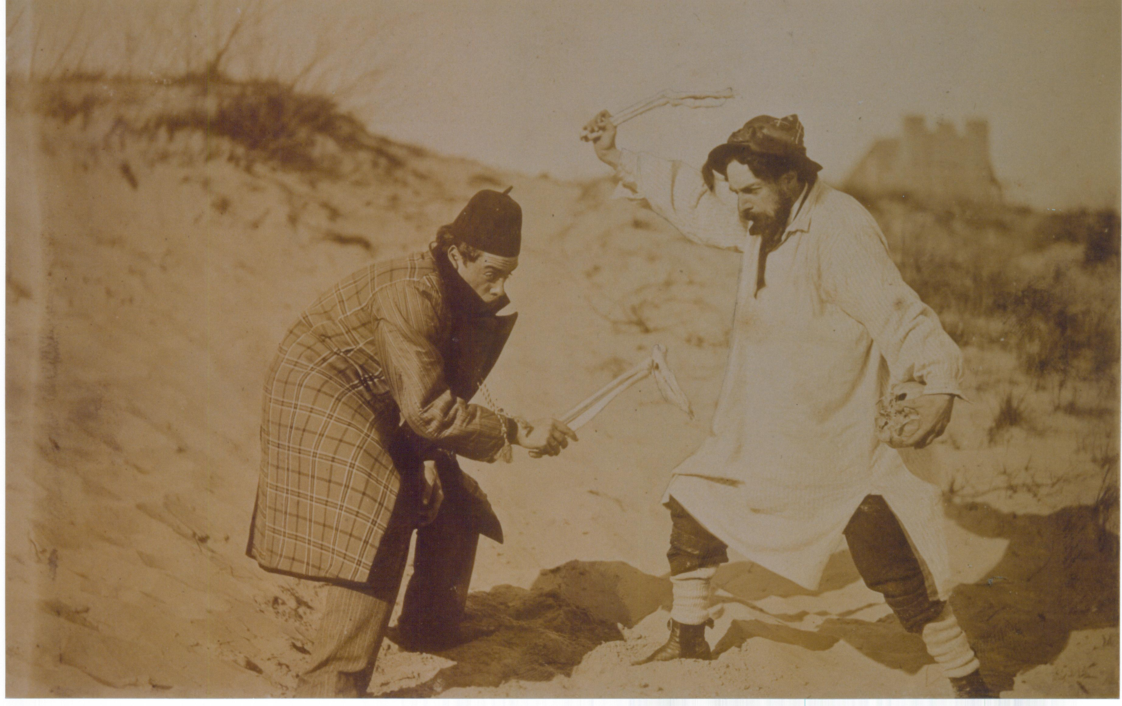 James Ensor and Ernest Rousseau jr. in the dunes of Ostend, 1892 (Beeldbank Kusterfgoed)